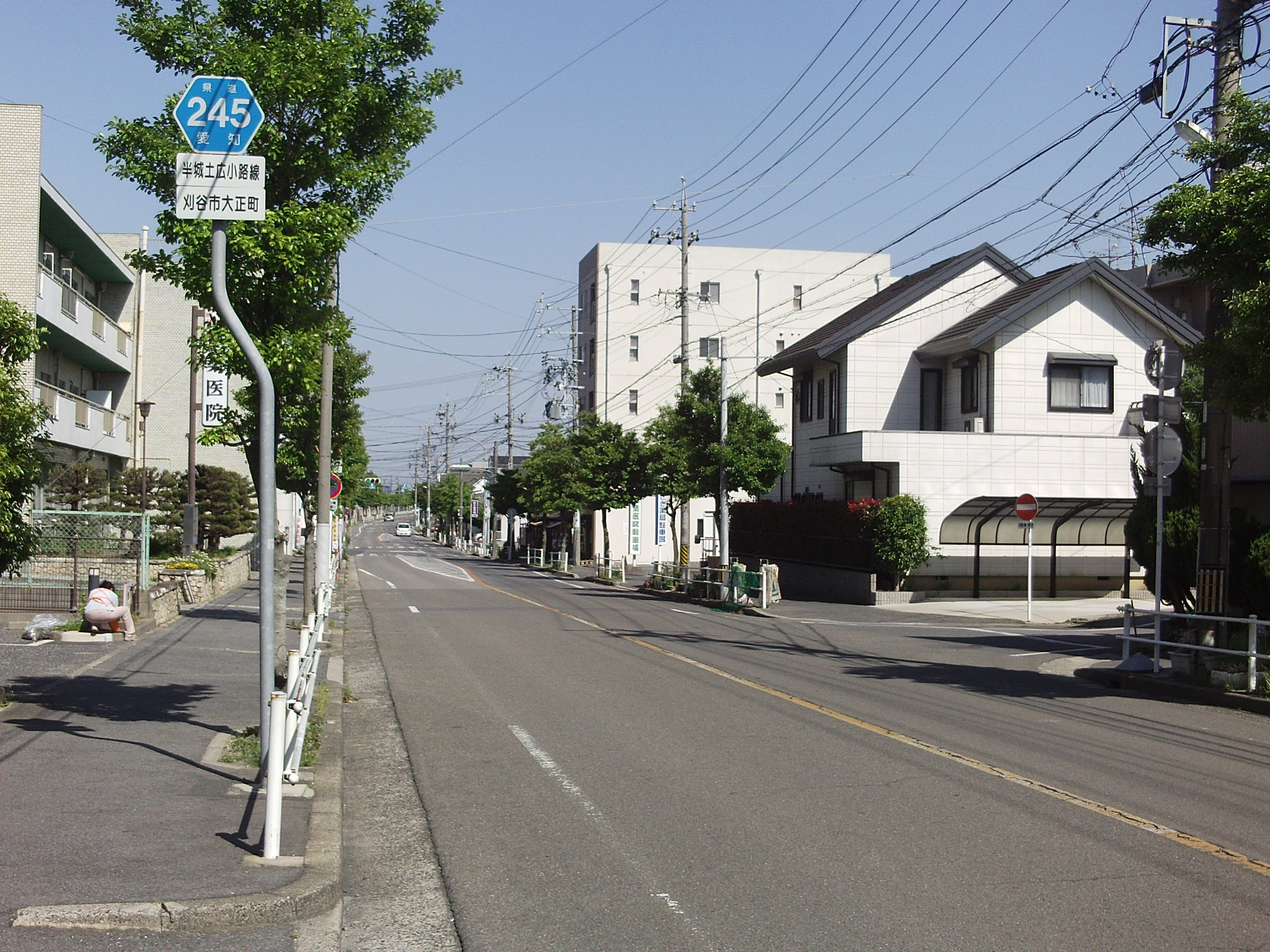 Aichi prefectural road No.245 in Taishomachi, Kariya, Aichi.